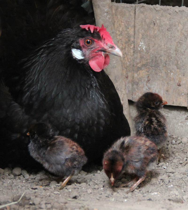 Bergische Kraeher (hen with its chicks)